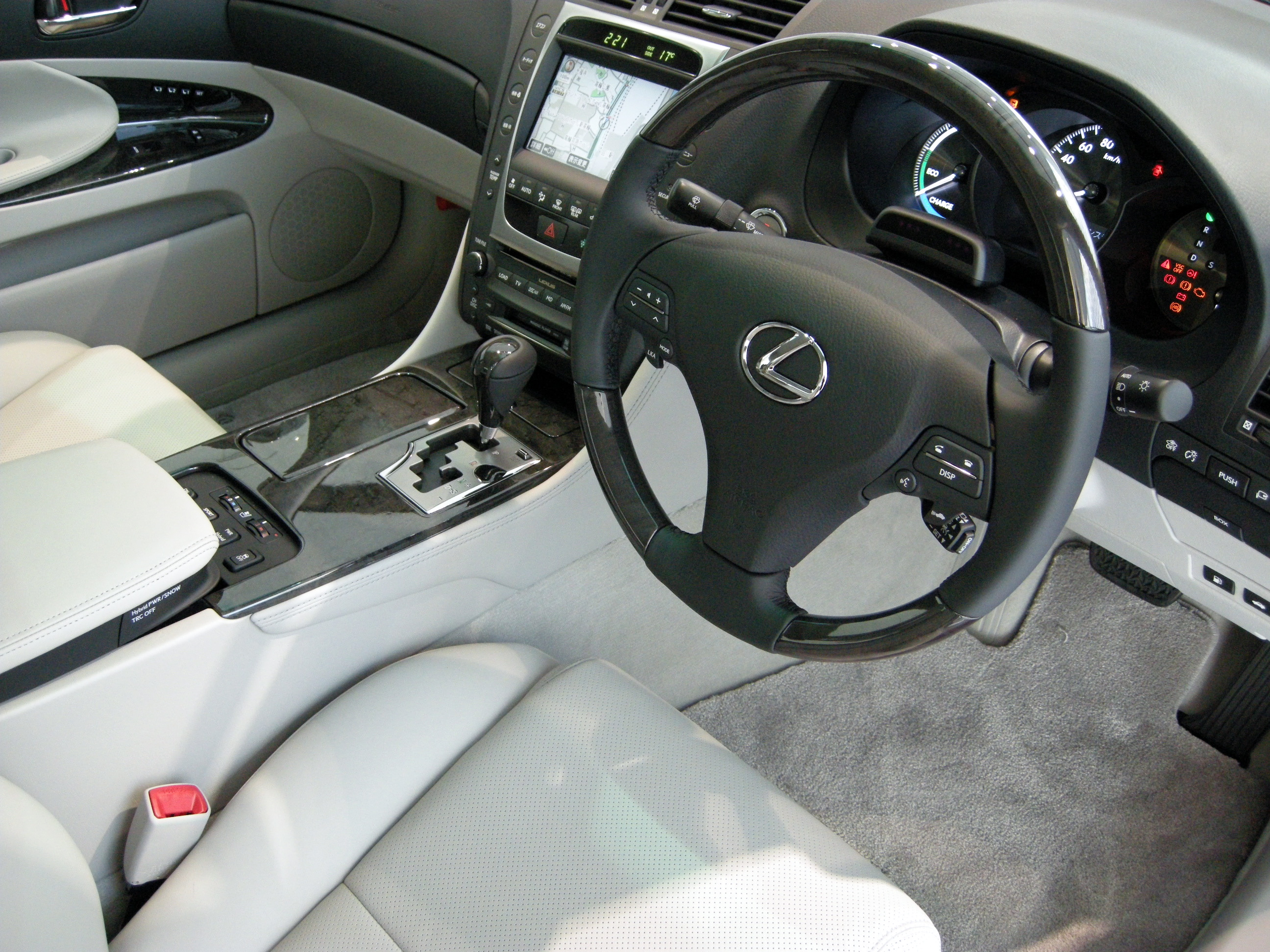 Lexus GS450h Interior